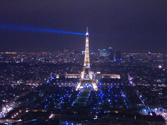 The Tour Eiffel from Montparnasse Tower in January 2006